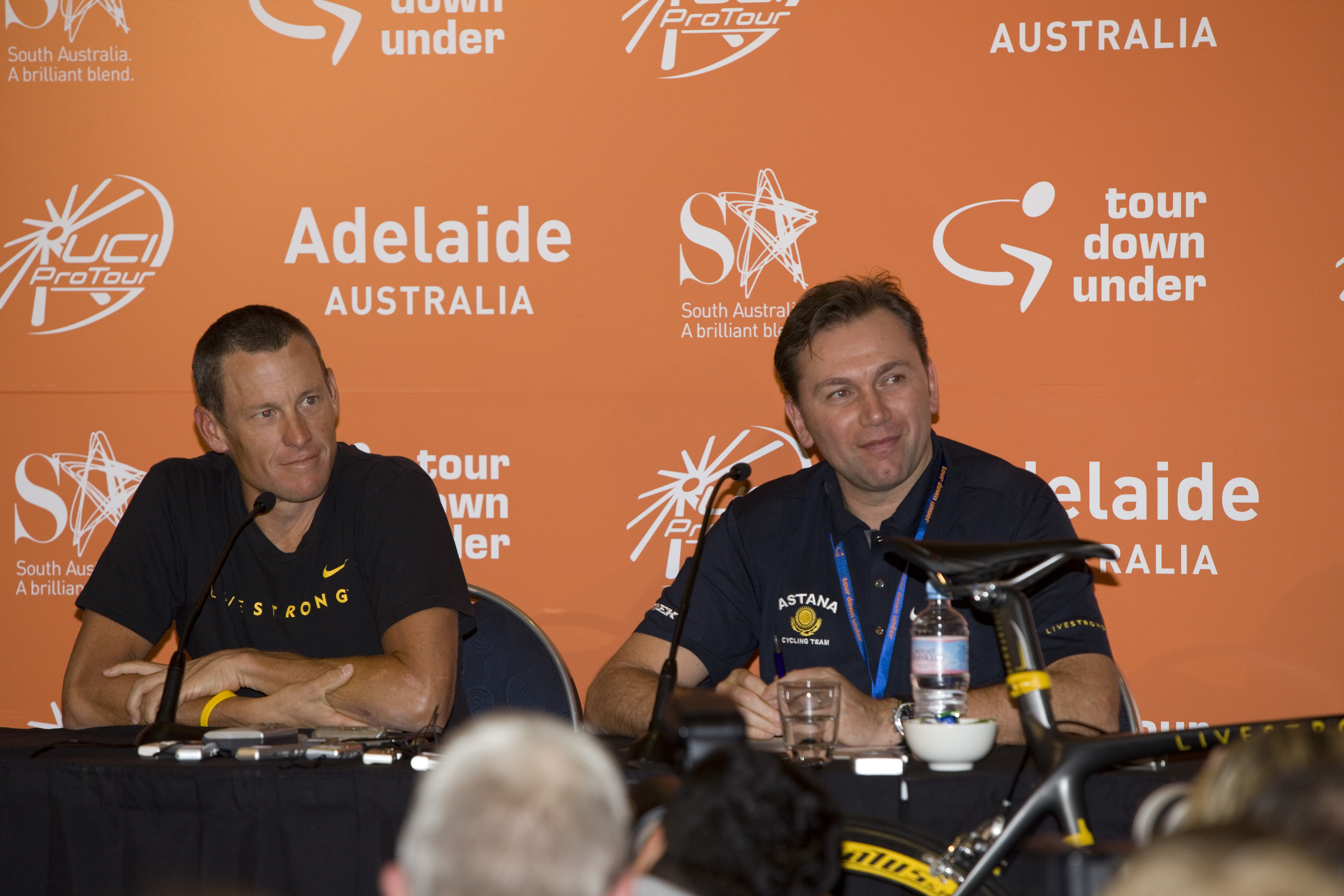 Lance Armstrong and Astana general manager Johan Bruyneel in press conference for the 2009 Tour Down Under in Adelaide South Australia. The press conference started out with talk of doping and testing, I felt bad for Lance and Johan that those were the first questions. Although both seemed relaxed and without expectations, they claimed that Armstrong was in better shape for this time of year than in a normal year due to a longer preparation for the season, this time starting in July rather than the usual December. He said that he still had some weight to lose and as a result he estimated that his current time-trial form would be better than climbing. The impression was that he had no great expectations for the Tour Down Under but stated that if opportunities arose that he would take them.